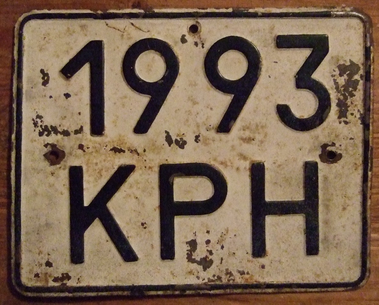 USSR, UKRAINIAN SSR, CRIMEA 1980 SERIES ---BUS or TRUCK PLATE